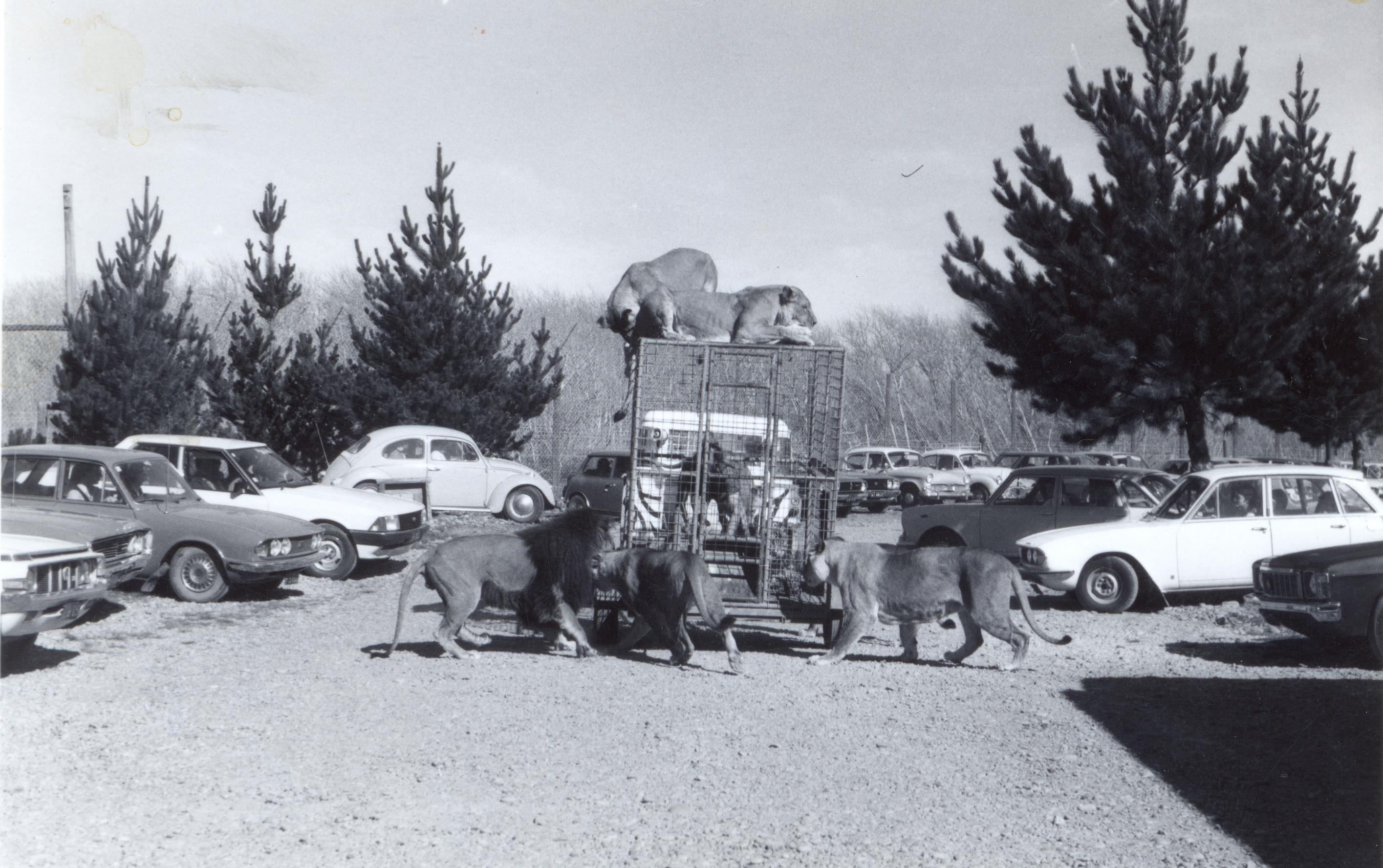 The drive-through Lion Reserve operated from 1976-1995 at Orana Wildlife Park. It was the only one of its kind in New Zealand.